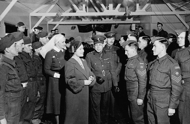 H.M. Queen Elizabeth, accompanied by Matron Agnes C. Neill, talking with personnel of No.15 Canadian General Hospital, Royal Canadian Army Medical Corps (R.C.A.M.C.), Bramshott, England, 17 March 1941